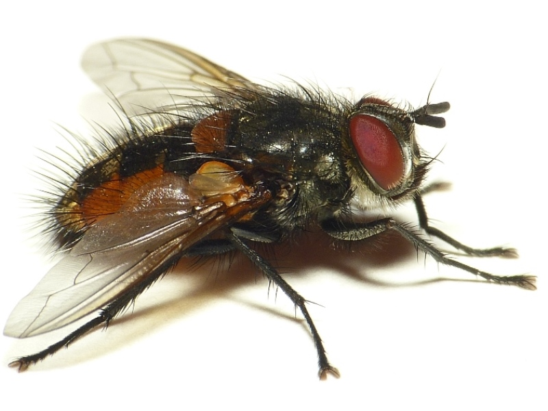 Winthemia variegata, location: The Netherlands - Rhenen - Blauwe Kamer - Gelderland